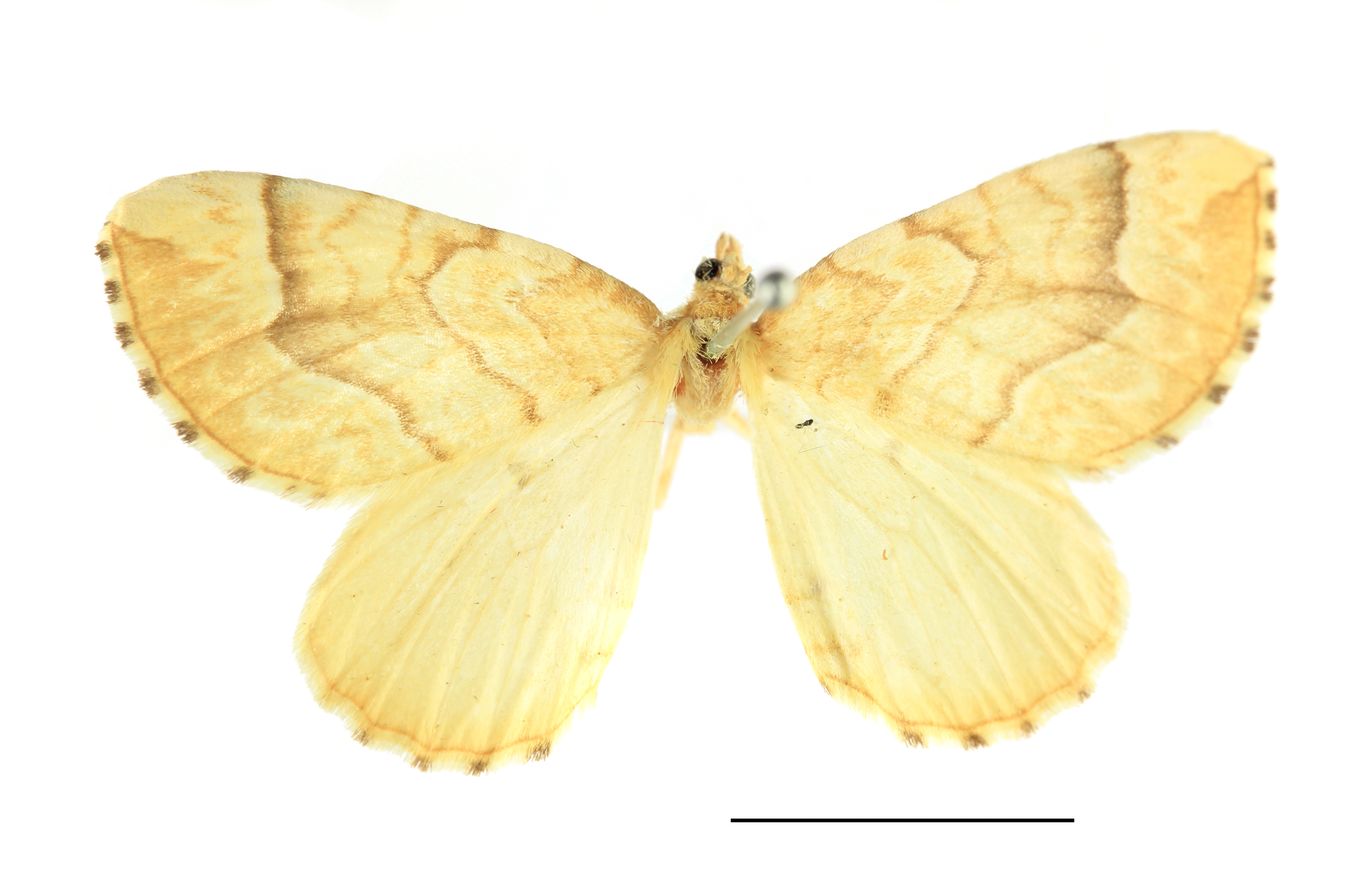 Eulithis mellinata, insect collections SLU, Uppsala